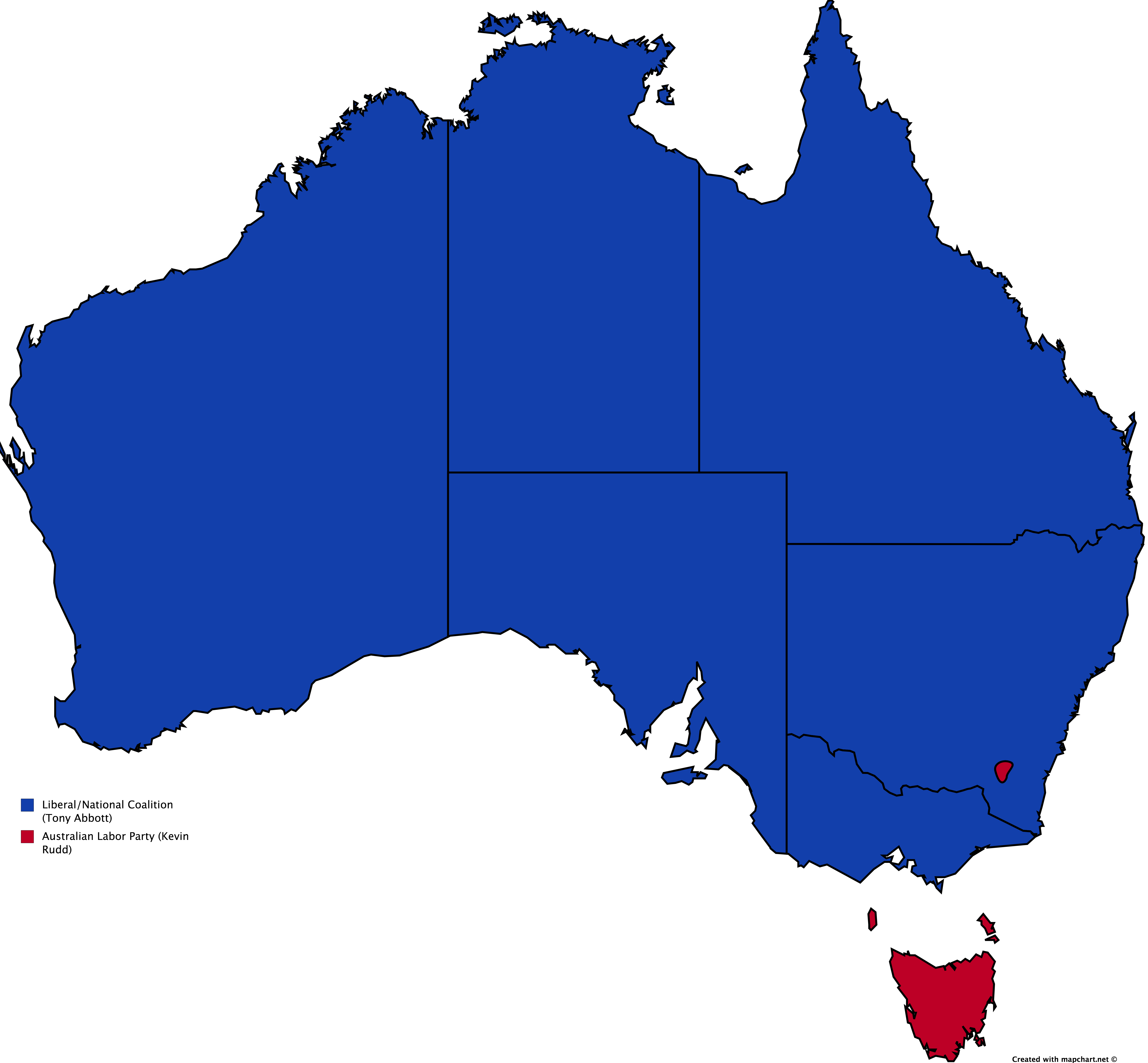 State Results, Popular Vote